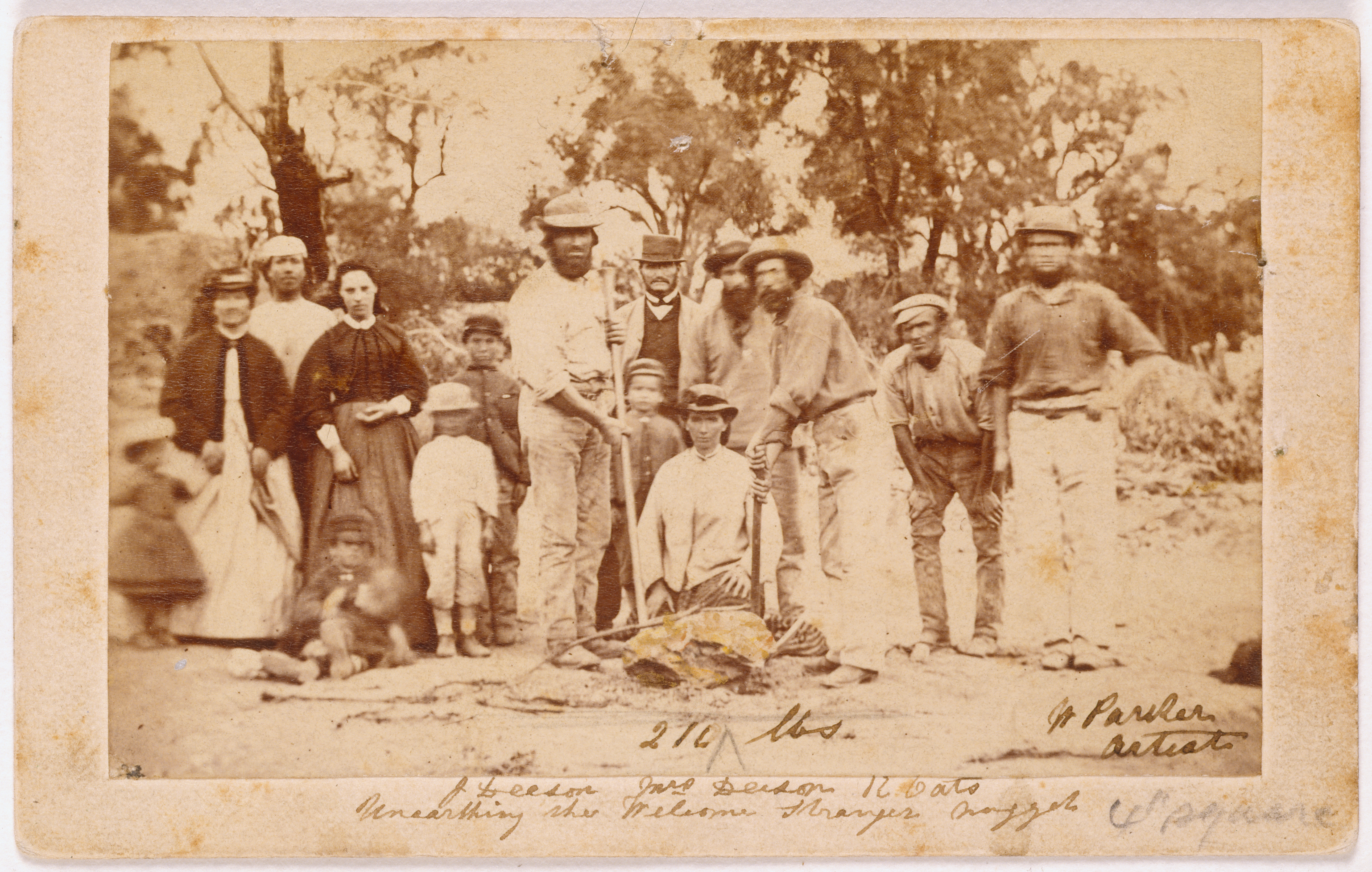 Miners and their wives posing with the finders of the nugget, Richard Oates, John Deason and his wife. The Welcome Stranger Nugget was discovered on 5 February 1869. photograph : albumen silver carte-de-visite ; on mount 6.5 x 10.7 cm. approx.